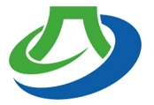 Houki Tottori chapter